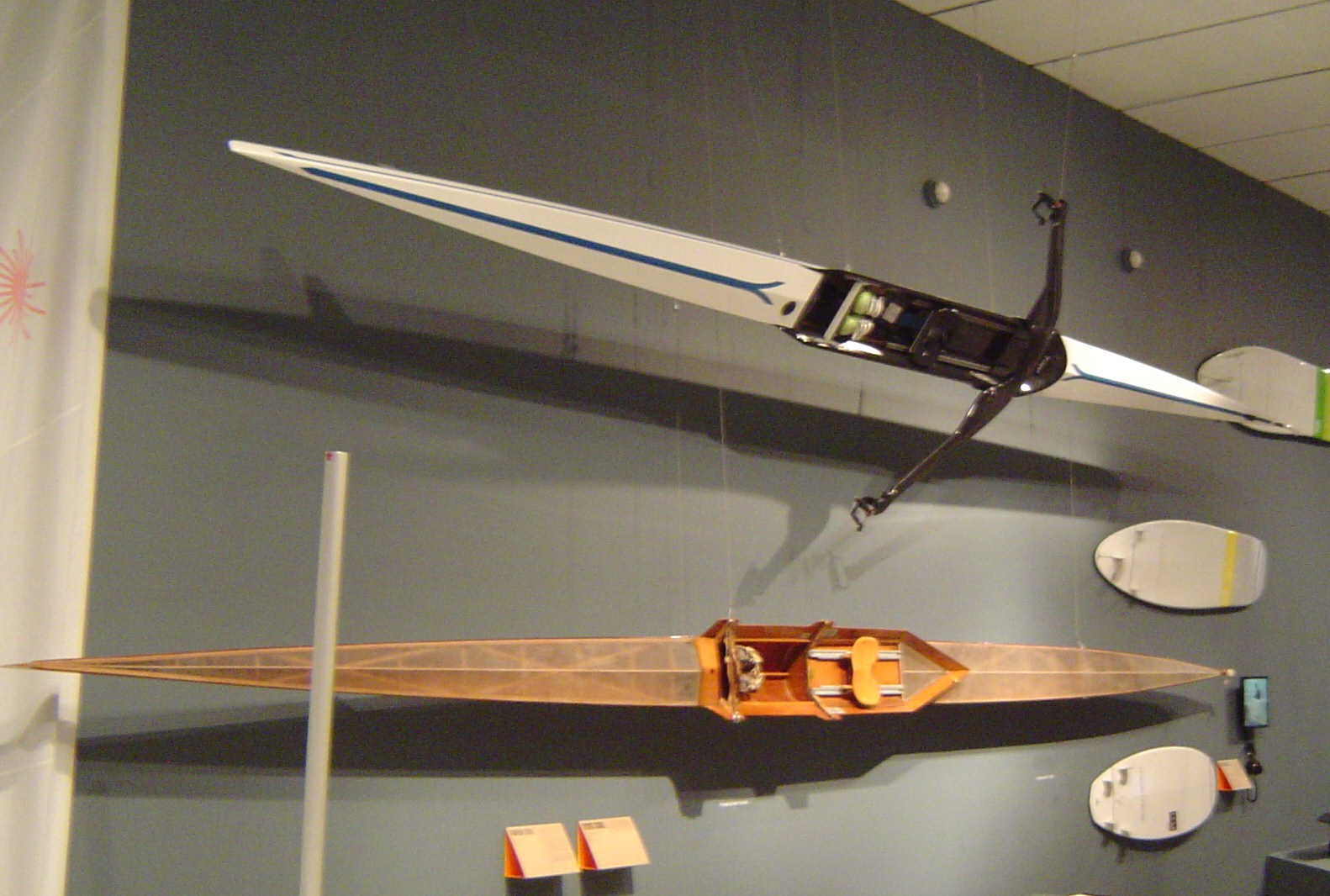 Modern composite single scull, above 1920's wooden single scull (at Design Museum)